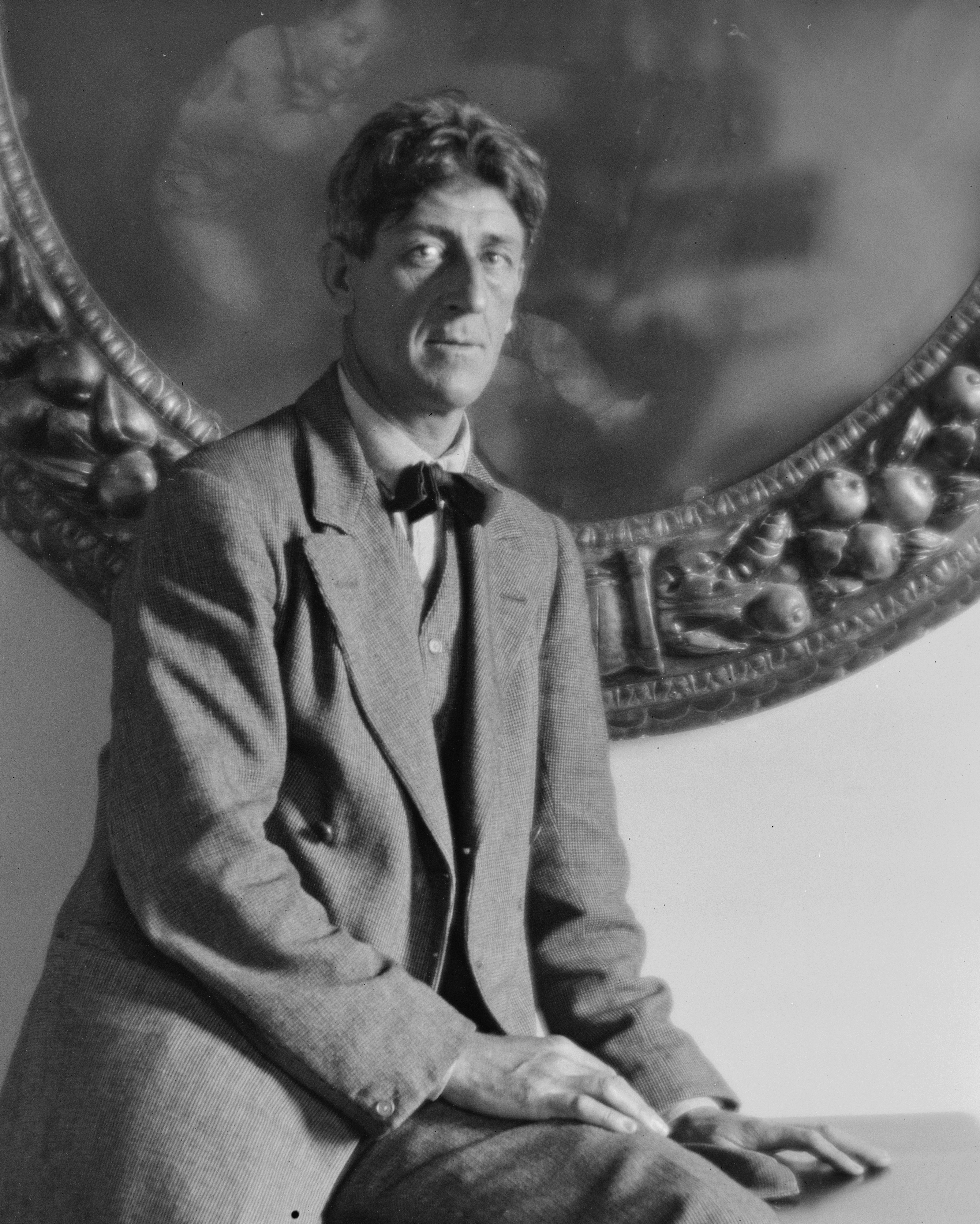 William Hardy Wilson at Purulia, Warrawee, New South Wales, 1921, 1 [picture]